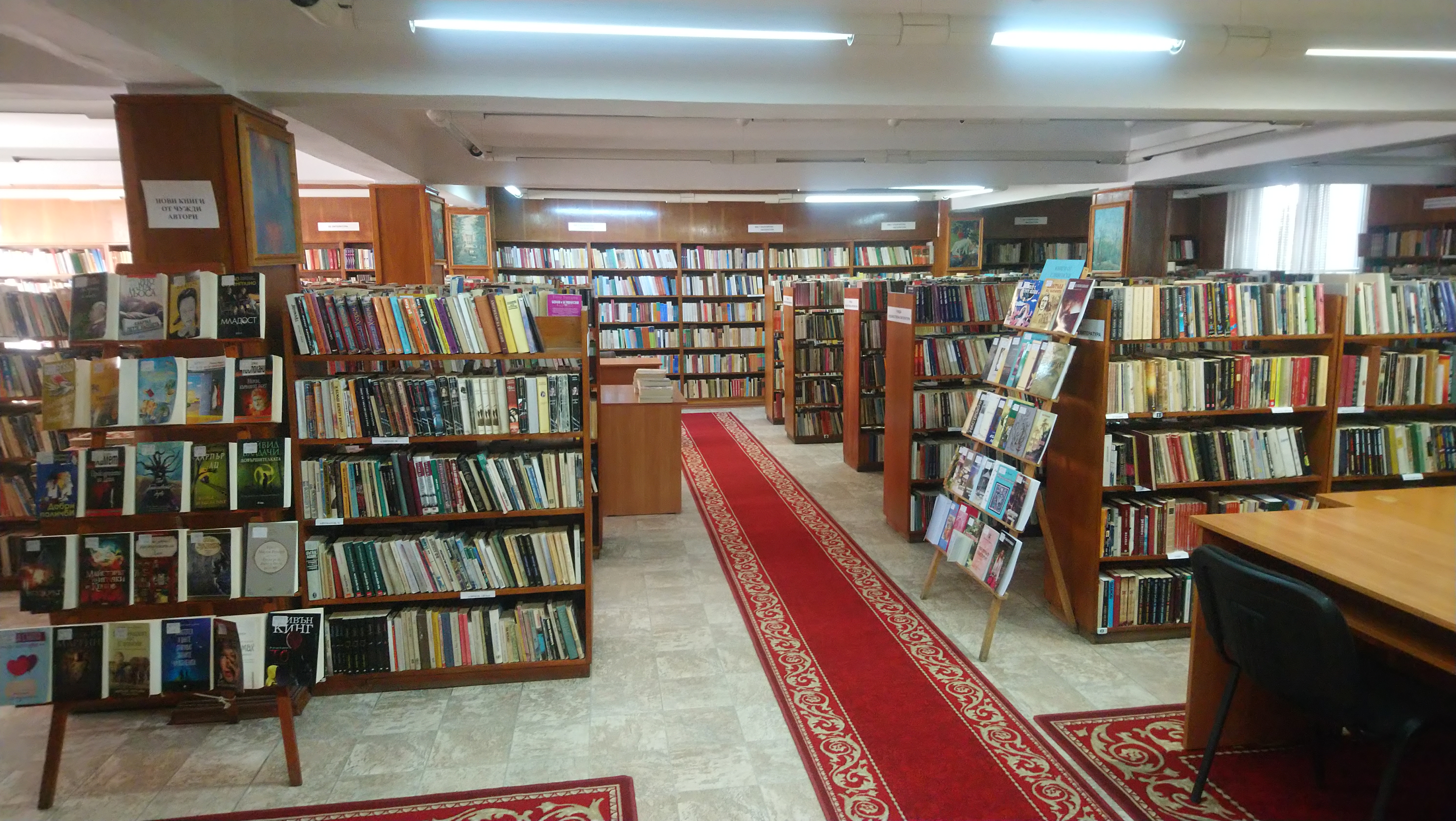 Sliven regional library Sava Dobroplodni